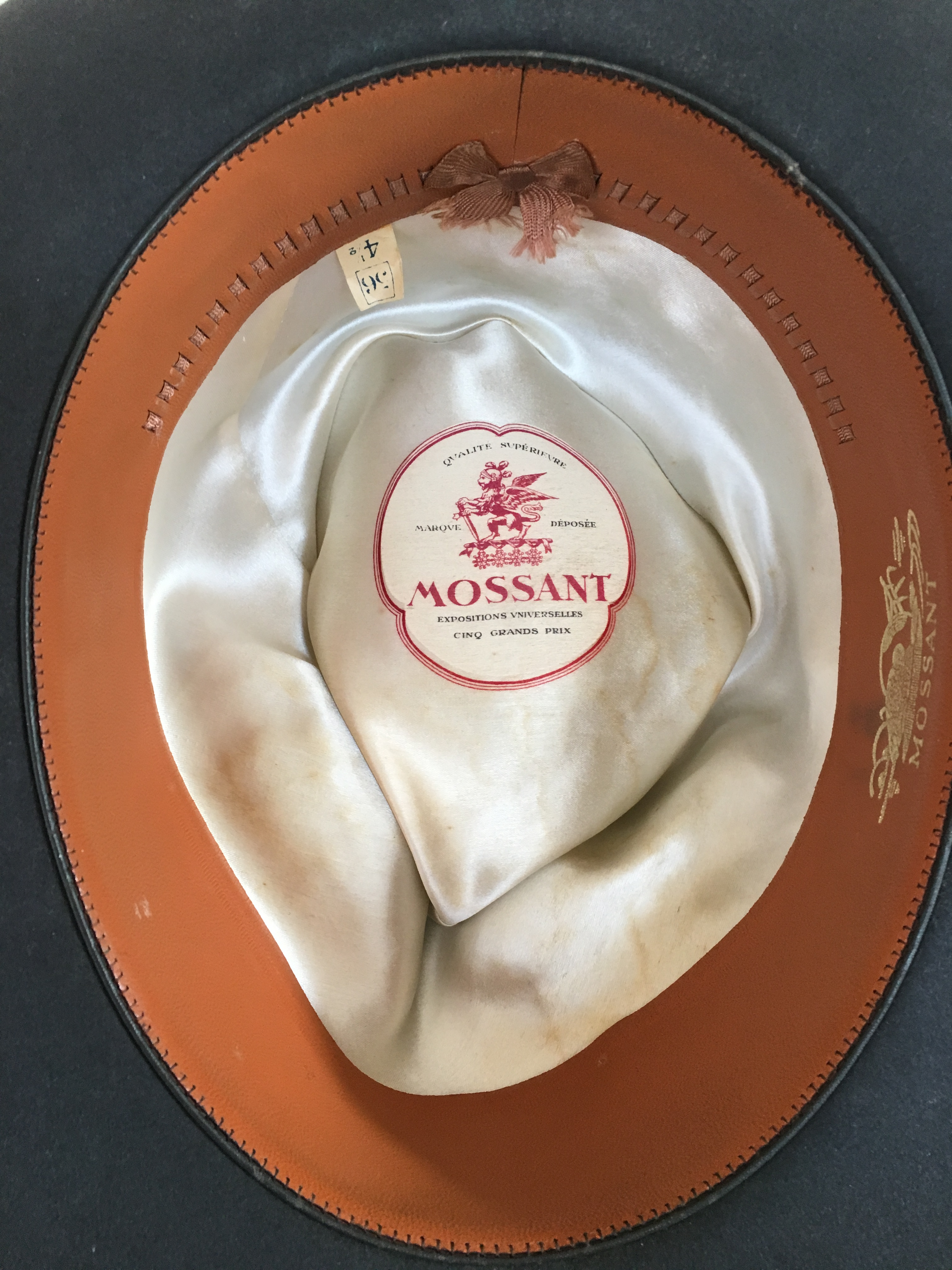 Mossant hat